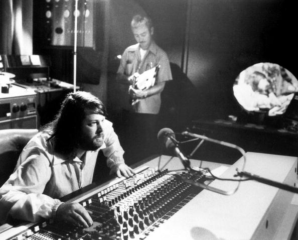 1976 promotional photo of Brian Wilson behind a mixing board.